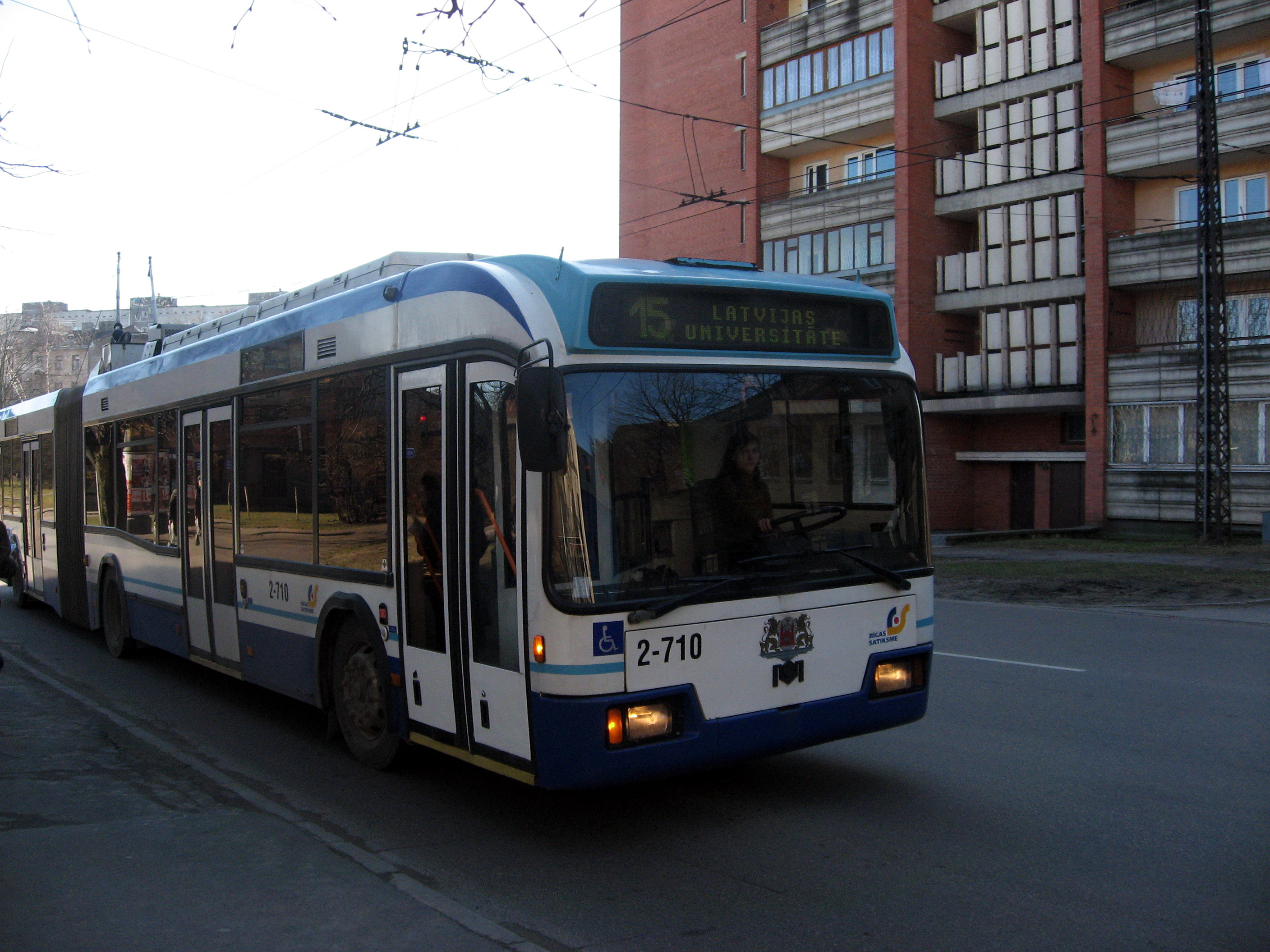 Белкоммунмаш АКСМ-333 trolleybus in Riga, Latvia. Year built 2000.